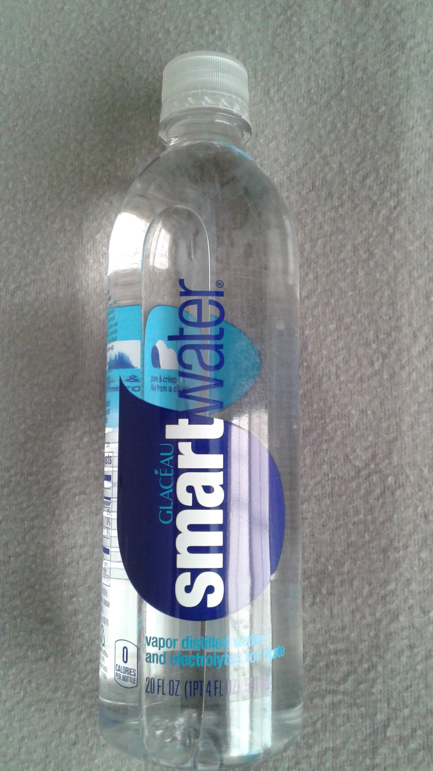 Glaceau Smartwater 20oz bottle